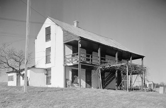 Kennedy Farm, Chestnut Grove Road, Samples Manor vicinity (Washington County, Maryland) (cropped)